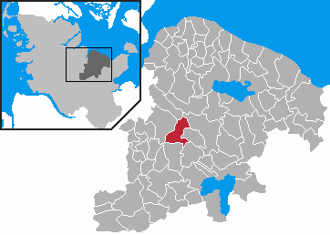 This map shows the area of the Stadt (town) Preetz in the Kreis (district) Plön, Schleswig-Holstein, Germany.